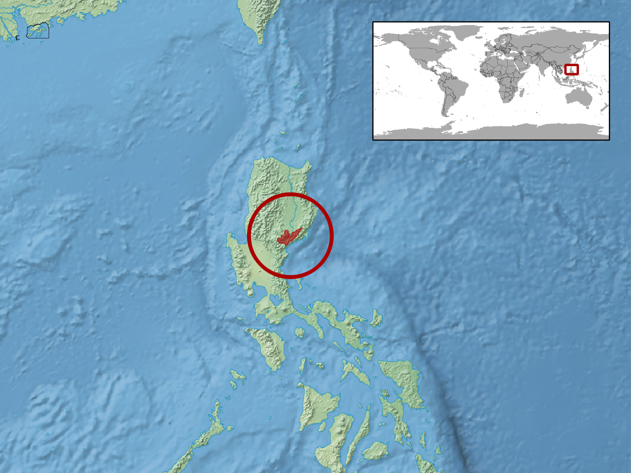 geographic distribution of Luperosaurus kubli (Native: Philippines)